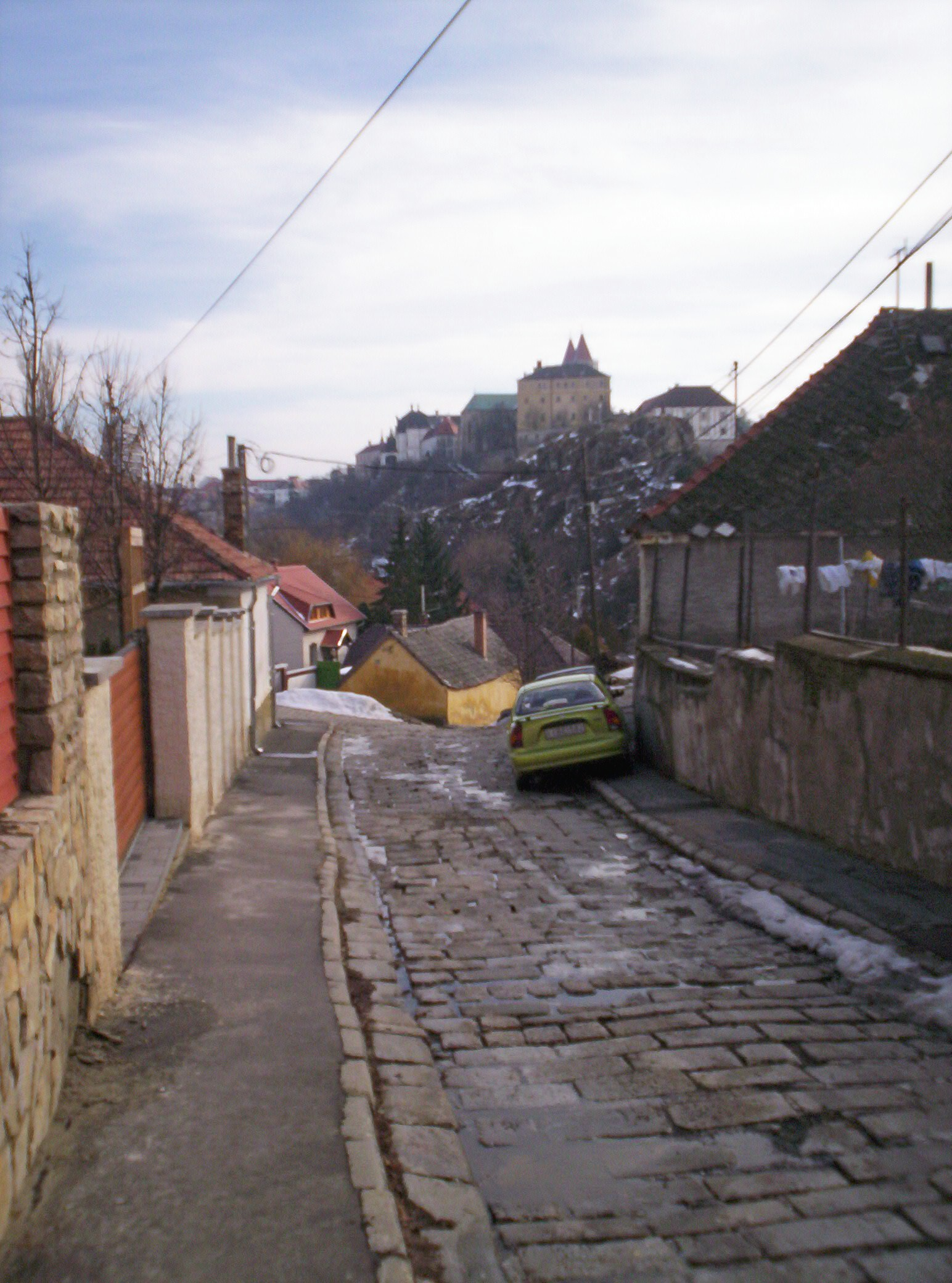 Description: A small street of quarter "Dózsaváros" in Veszprém, with the castle in the background